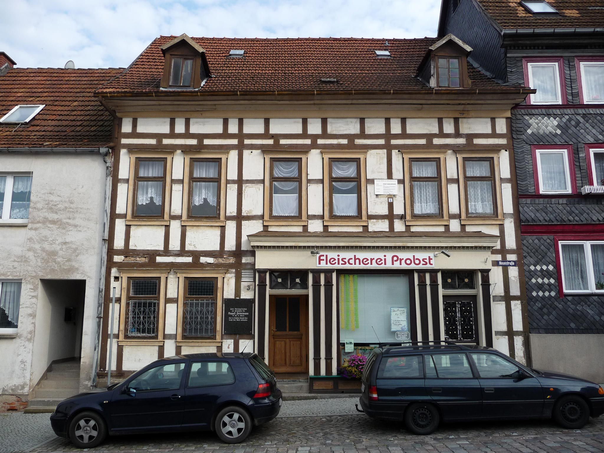 Birth place of August Petermann (1822–1878), Neue Straße 3, Bleicherode.